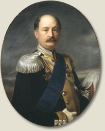 Russian lieutenant-general Otto Furuhjelm (Furugelm), (1819-1883)